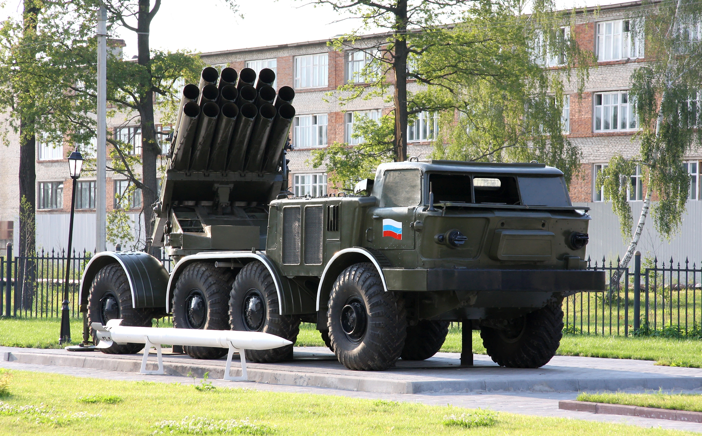 BM-27 Uragan MLRS as a monument to A.N. Ganichev near Splav State Research and Production Enterprise, Tula city